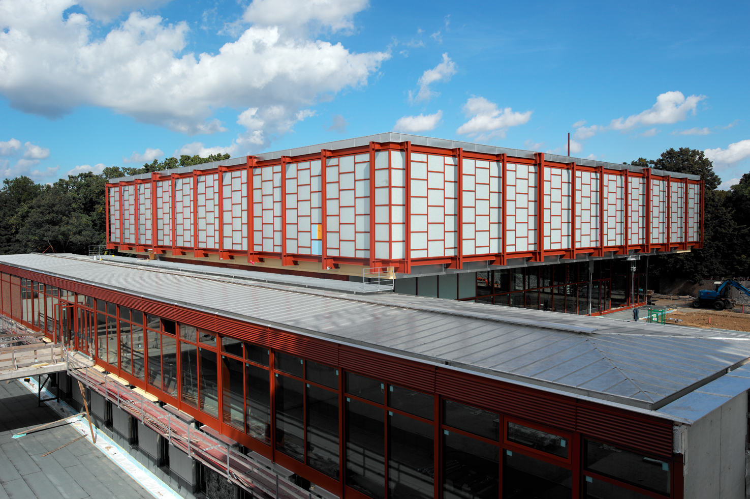 September 18, 2010 (Opening: September 20, 2011) The 20er Haus was built in 1958 by the Austrian architect Karl Schwanzer (1918-1975) as a pavilion or temporaray showroom for the World Fair ins Brussels 1958. On 30 January 1958, the daily newspaper Die Presse described the exhibition hall originally designed for the Expo as "a virtually ideal foundation for a Museum of Modern Art". Karl Schwanzer adapted the steel skeleton construction to the museum’s purposes: the ground floor was glazed, the courtyard was covered with a roof, all façades were substantially modified, and the whole structure was reinstalled in the Schweizer Garten. The new museum was opened on 20 September 1962. One of the comments about the institution and its first exhibition, Art from 1900 to the Present, said that the museum represented such a break with the Viennese museum tradition "that one automatically felt as if on foreign territory when first entering the museum". The art historian Werner Hofmann wrote on the occasion of its opening: "This new building bears the signature of our age, and its spatial layout does justice to the fact that the art of this century displays a powerful and frequently aggressive self-confidence that calls for vastness and openness." The building served as an exhibition hall for the Museum of Modern Art until its collection was moved to the Museum of Modern Art - Ludwig Foundation in Vienna’s new MuseumsQuartier (the former Court Stables) in late 2001. The 20er Haus was finally incorporated into the Belvedere in the early summer of 2002.